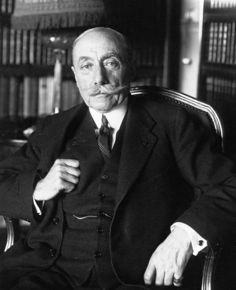 French composer André Messager (1853-1929).